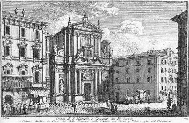 1) Palazzo Mellini; 2) Part of the Monastery of the Servite Order; 3) Palazzo Decarolis.